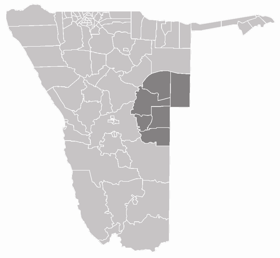 map of the Omaheke region in Namibia